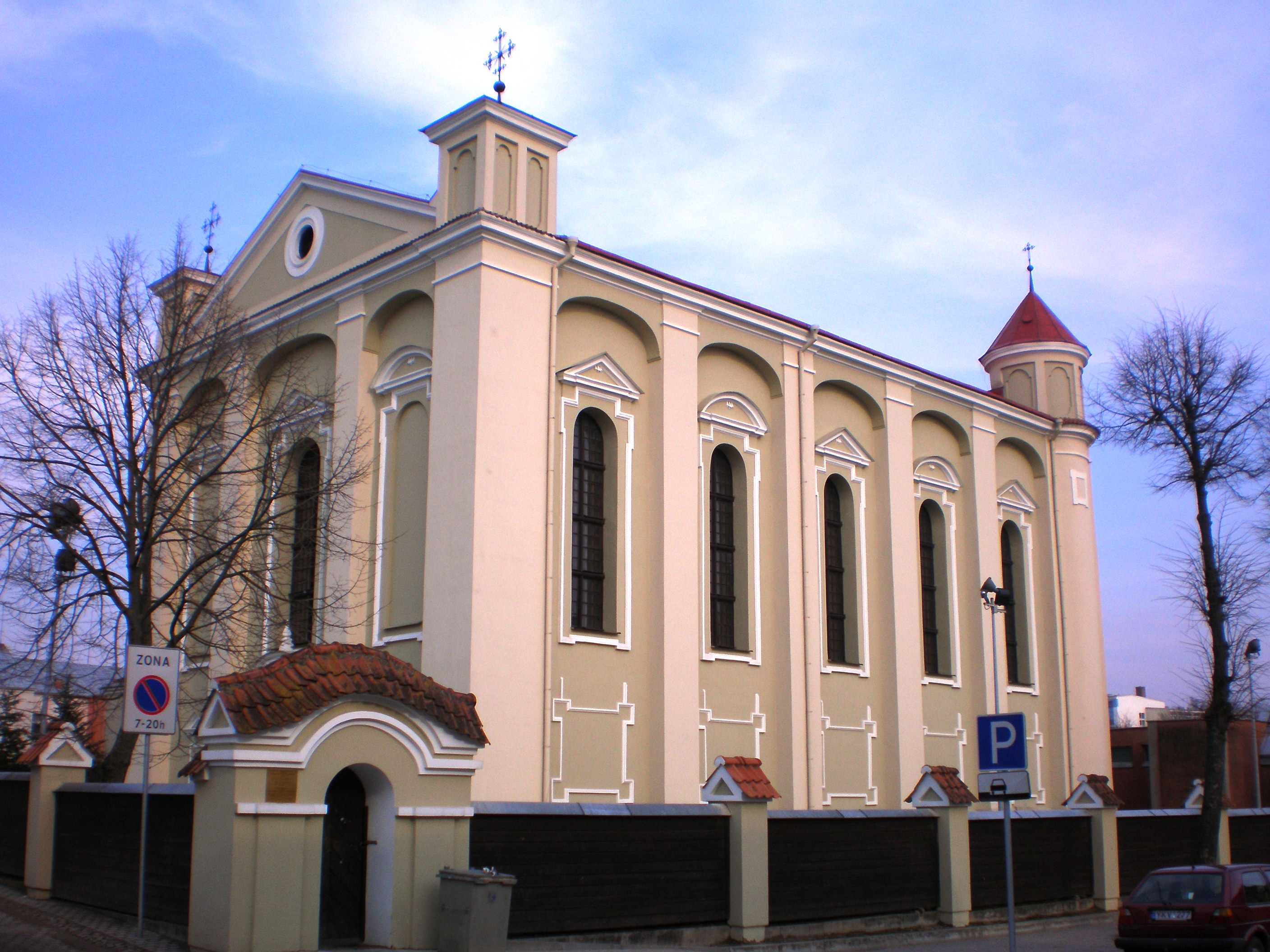 Kėdainiai Evanghelic Reformatic Church